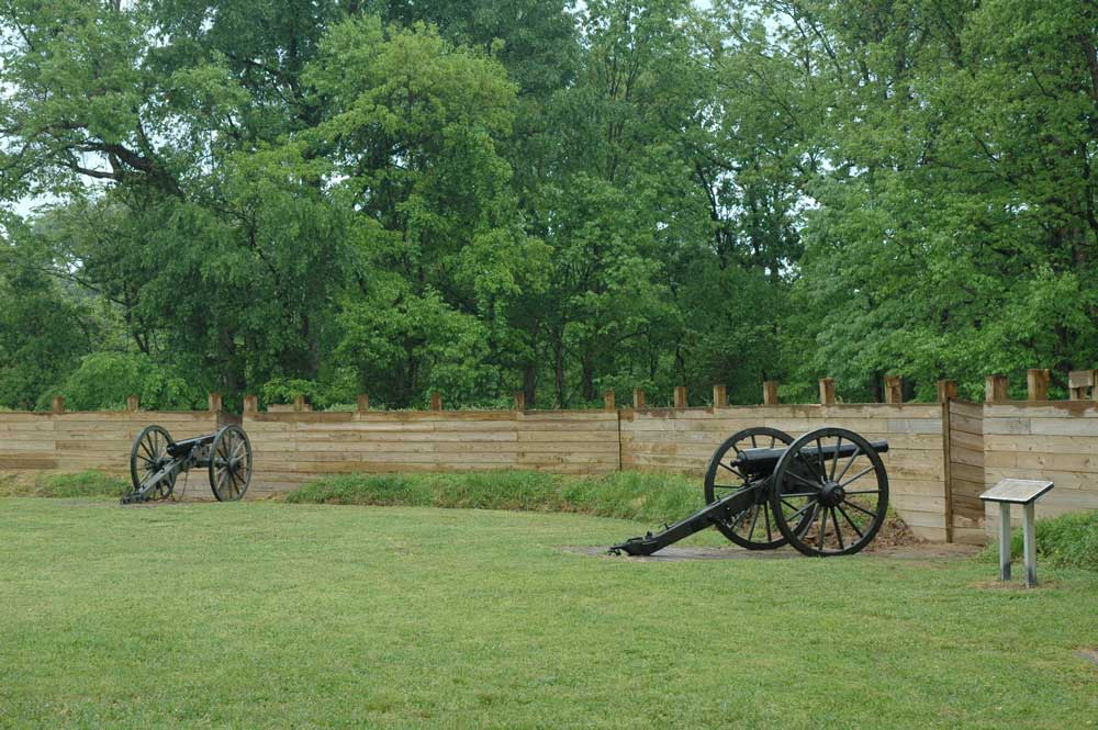 Photo taken at Fort Pillow State Park in 2006. Own work.